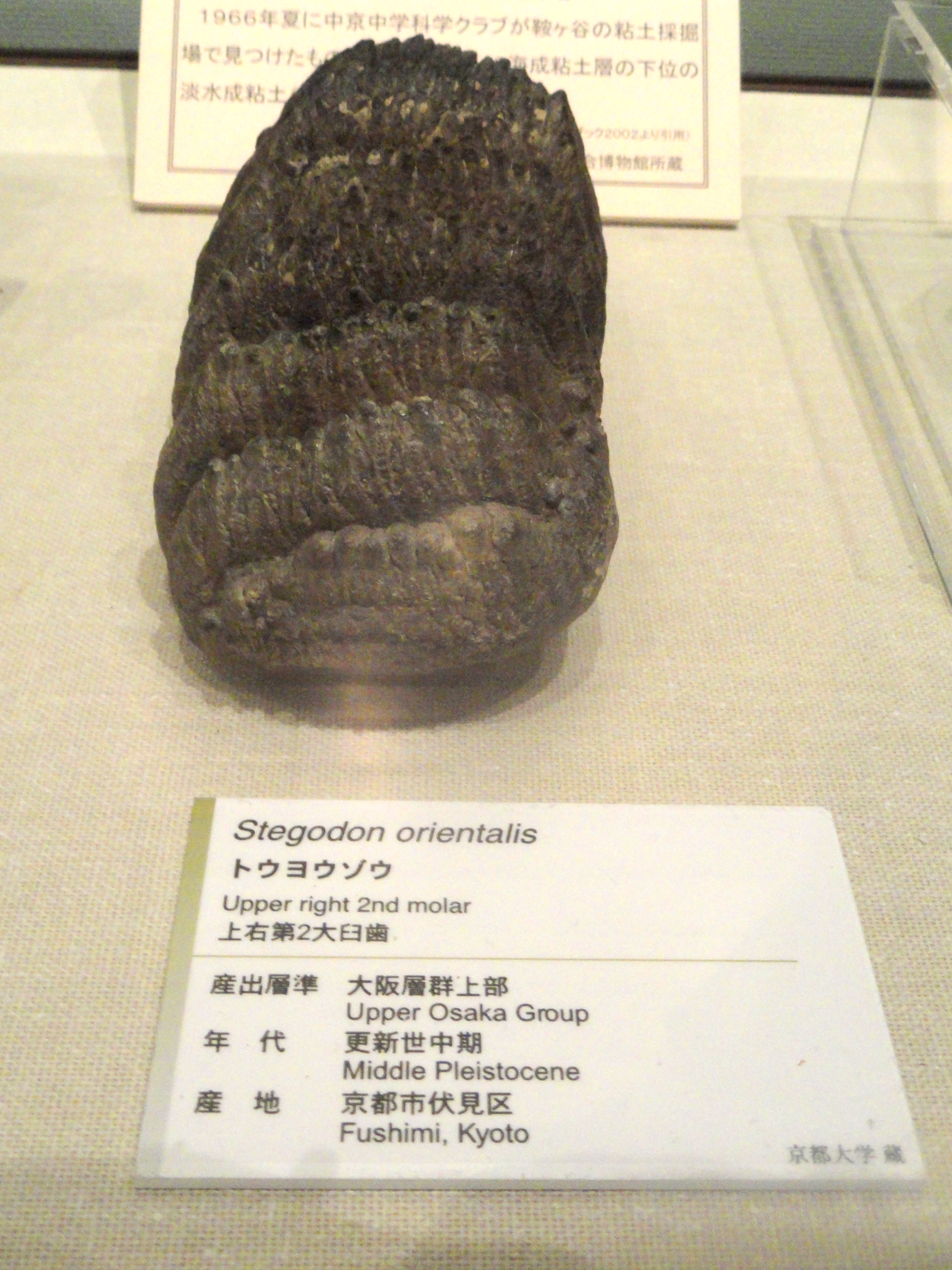 Exhibit in the Kyoto University Museum, Kyoto, Japan.